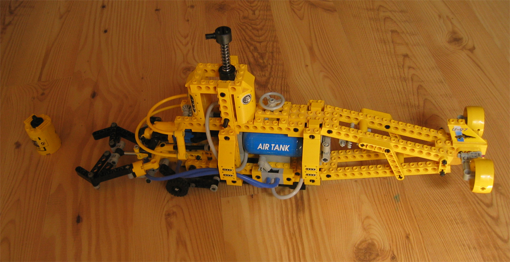 Lego Technic 8250 Search Sub, submarine